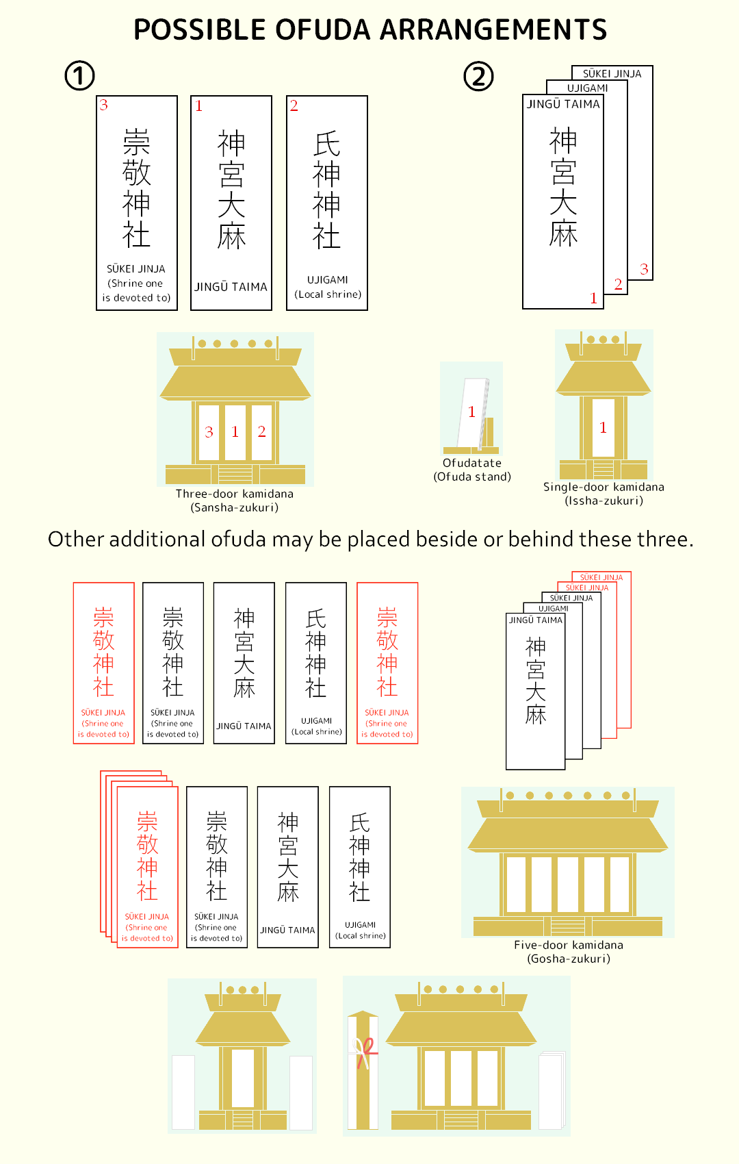 Possible arrangements of talismans or ofuda enshrined in Shinto household altars (kamidana).